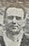 Dr. Galen F. Scudder at Kodaikanal Missionary Union/Kodaikanal Club tennis match, 1925 (back row 3rd from left)